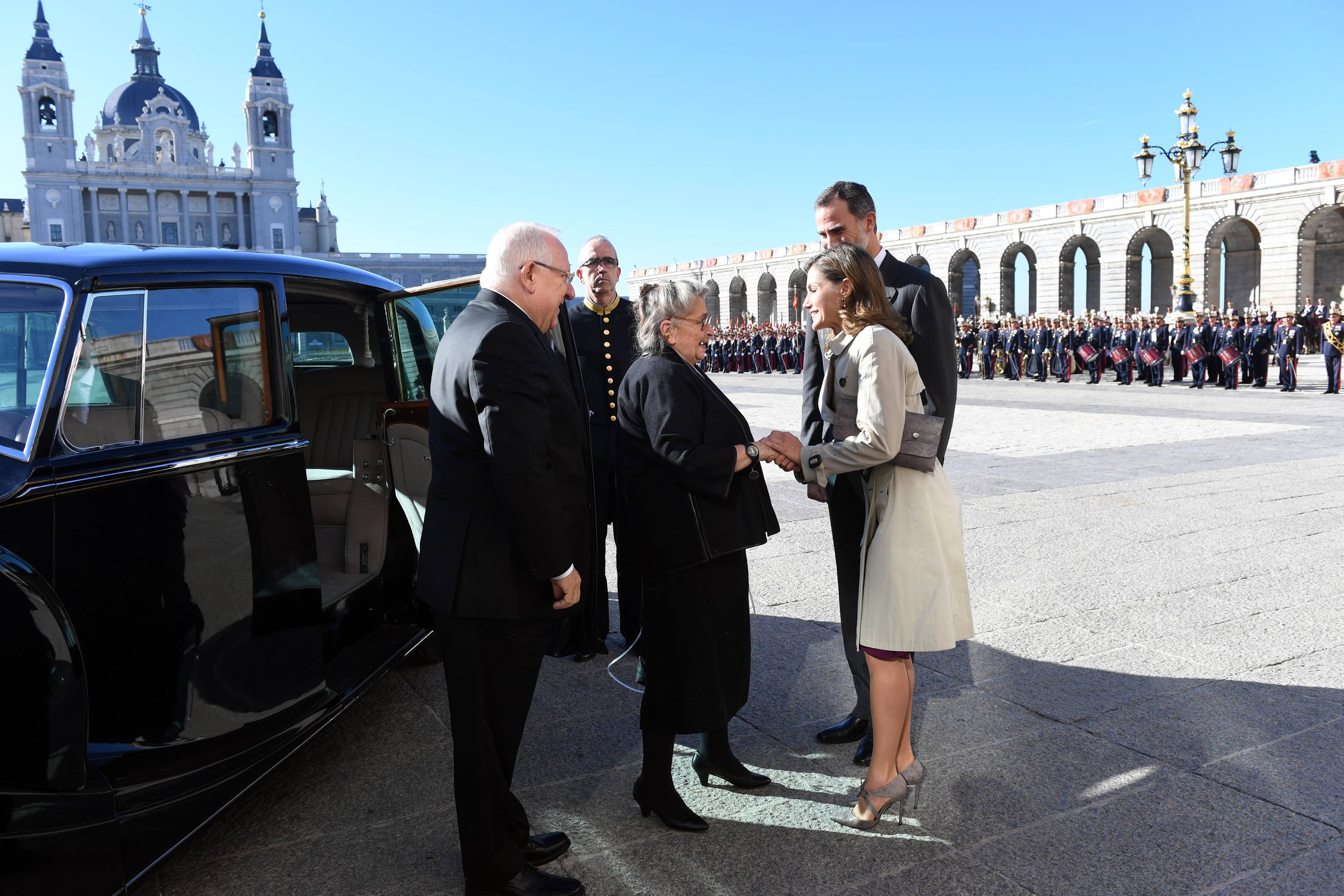 President of the State, Reuven Rivlin, at a special ceremony for a reception at the Spanish royal palace in honor of his arrival. Monday, November 6, 2017. Photo Credit: Haim Tzach / GPO